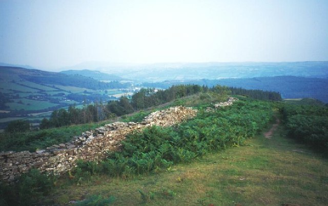 Allt yr Esgair. Near the summit of this elongated sandstone hill above Llangorse. A ruined stone wall encloses land later planted with conifers by the Forestry Commission. Looking southeast down the ridge.